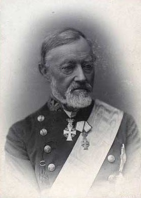 Peter Christian Nouvel Buch (1816-1904), Danish judge